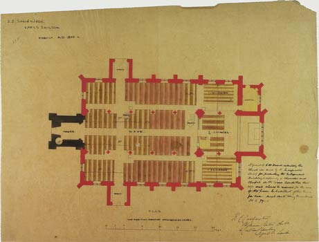 1855 plan for SS Simon and Jude parish church, Earl Shilton, Leicestershire